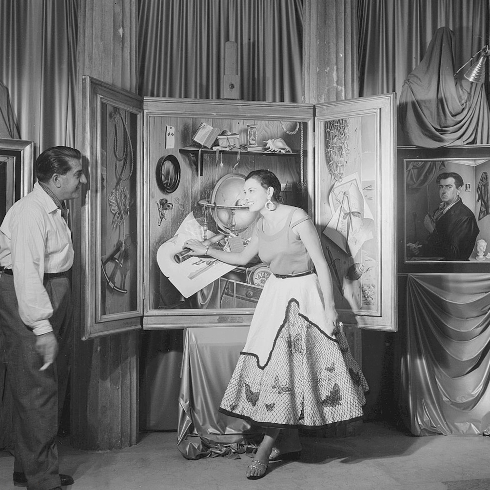 Armenian painter Gregorio Sciltian, next to one of his works, and his wife Elena Boberman smiling during the XVI Venice International Film Festival. Venice, 1955